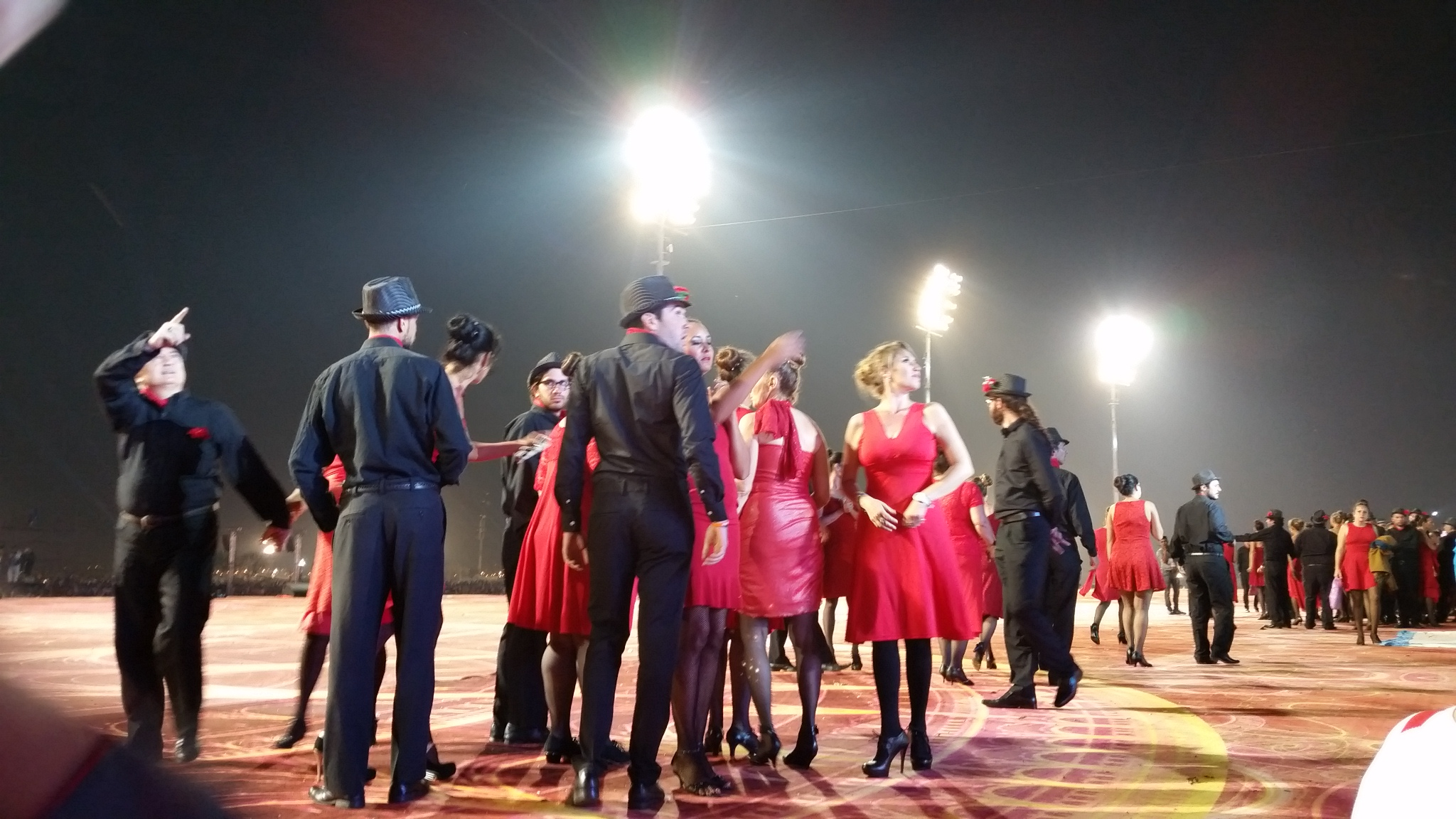 Argentinean Performers at the World Cultural Festival 2016 held in New Delhi.